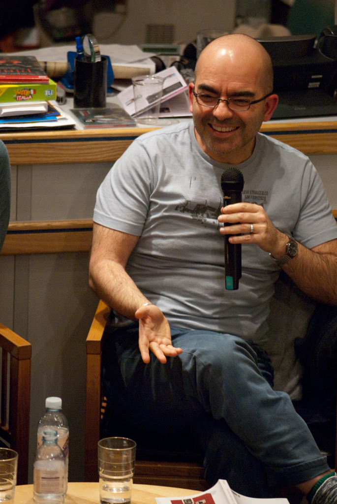 Nicola Gardini presenta le parole perdute di Amelia Lynd